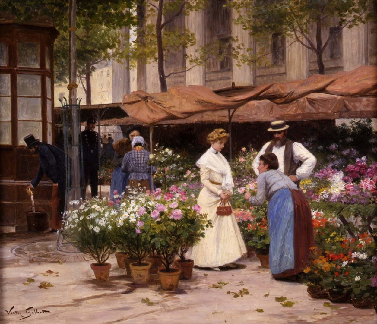 Marche aux fleurs